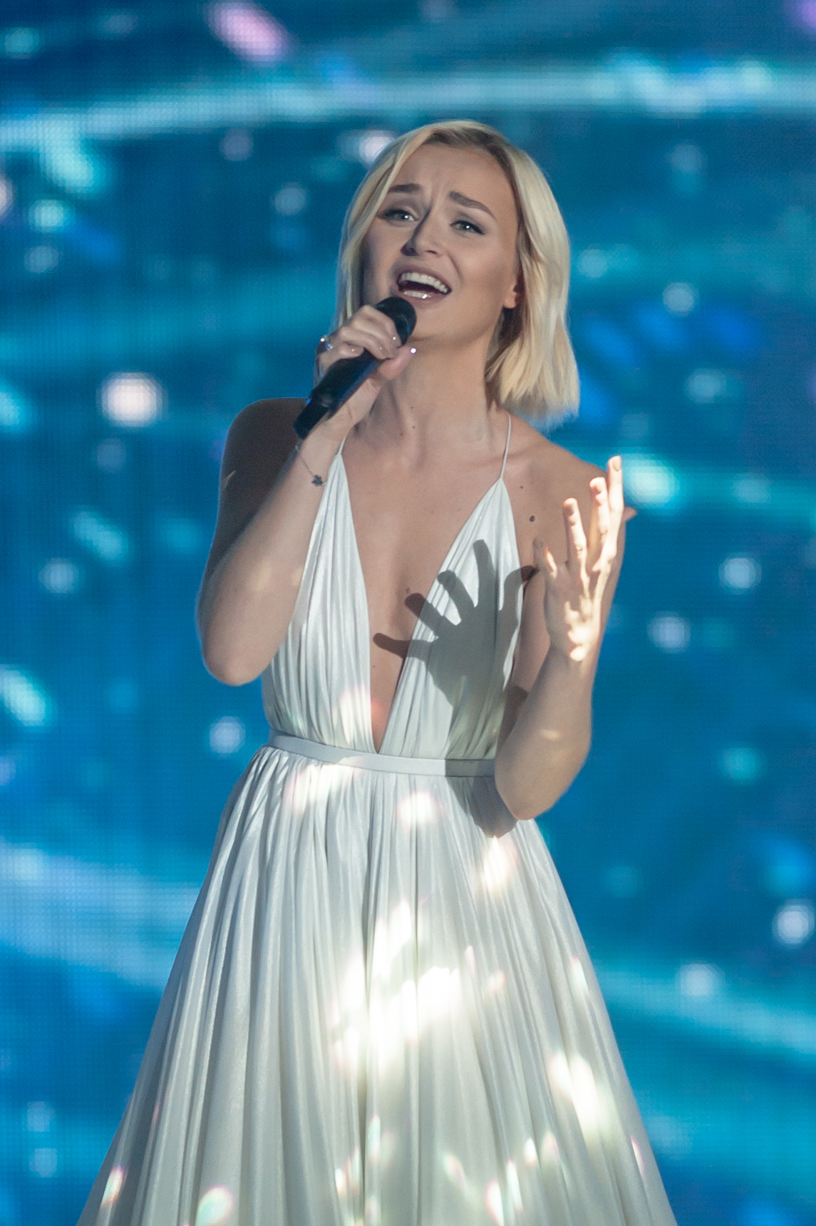 Eurovision Song Contest Vienna 2015: Polina Gagarina